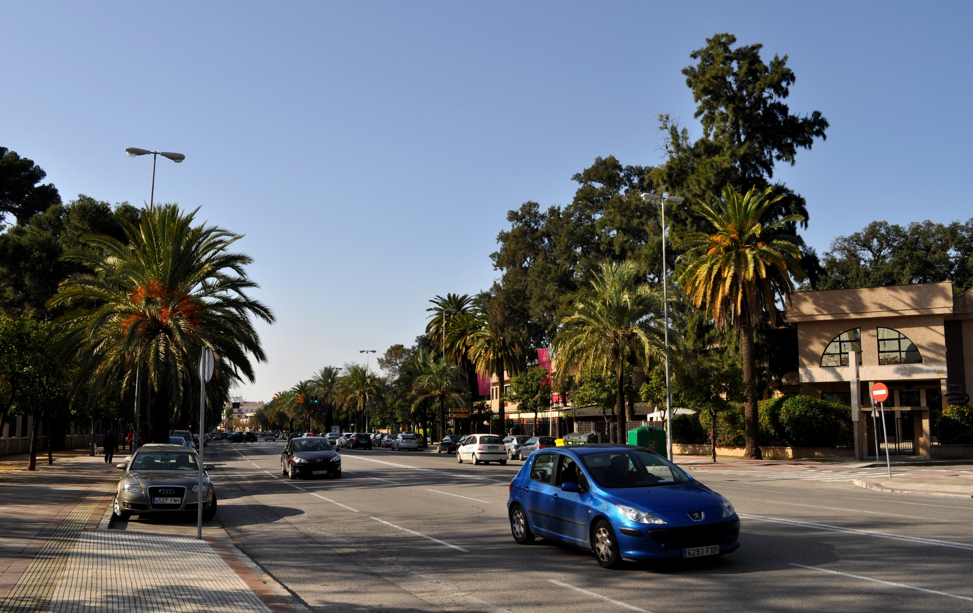 Alcalde Alvaro Domecq St. Jerez